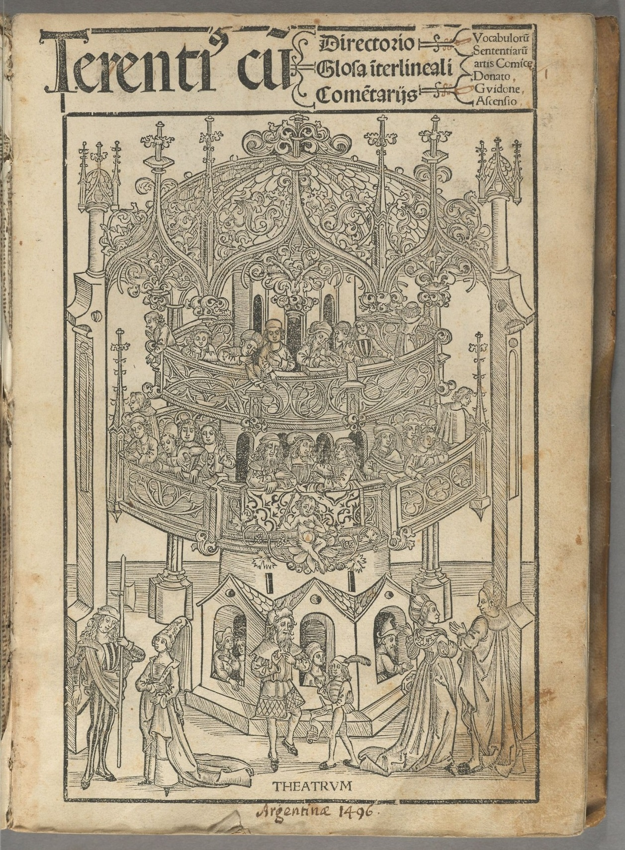 Engraving illustration of the Terence ("Terentius") comedies edition Terentius: Comoediae, 1496. Inc 473 (14.5), Houghton Library, Harvard University.Text on page: "Terentius cum Directorio Vocabulorum Sententiarum artis Comice, Glosa interlineali, Comentariis Donato, Guidone, Ascensio" and "Teatrum Argentinae 1496" (Theater of Strasbourg (Argentoratum)?).